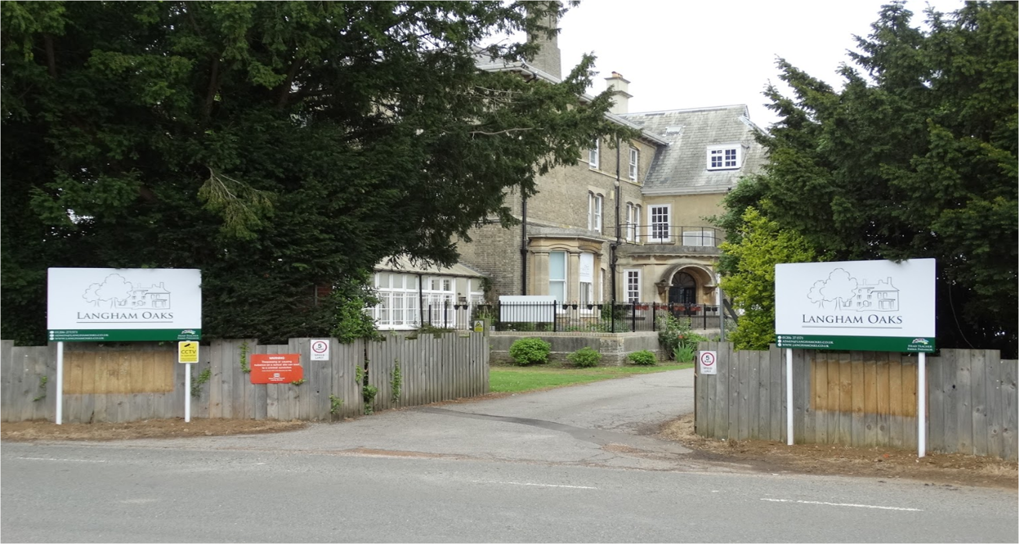 Photo of Langham Oaks School - Located in Langham Essex